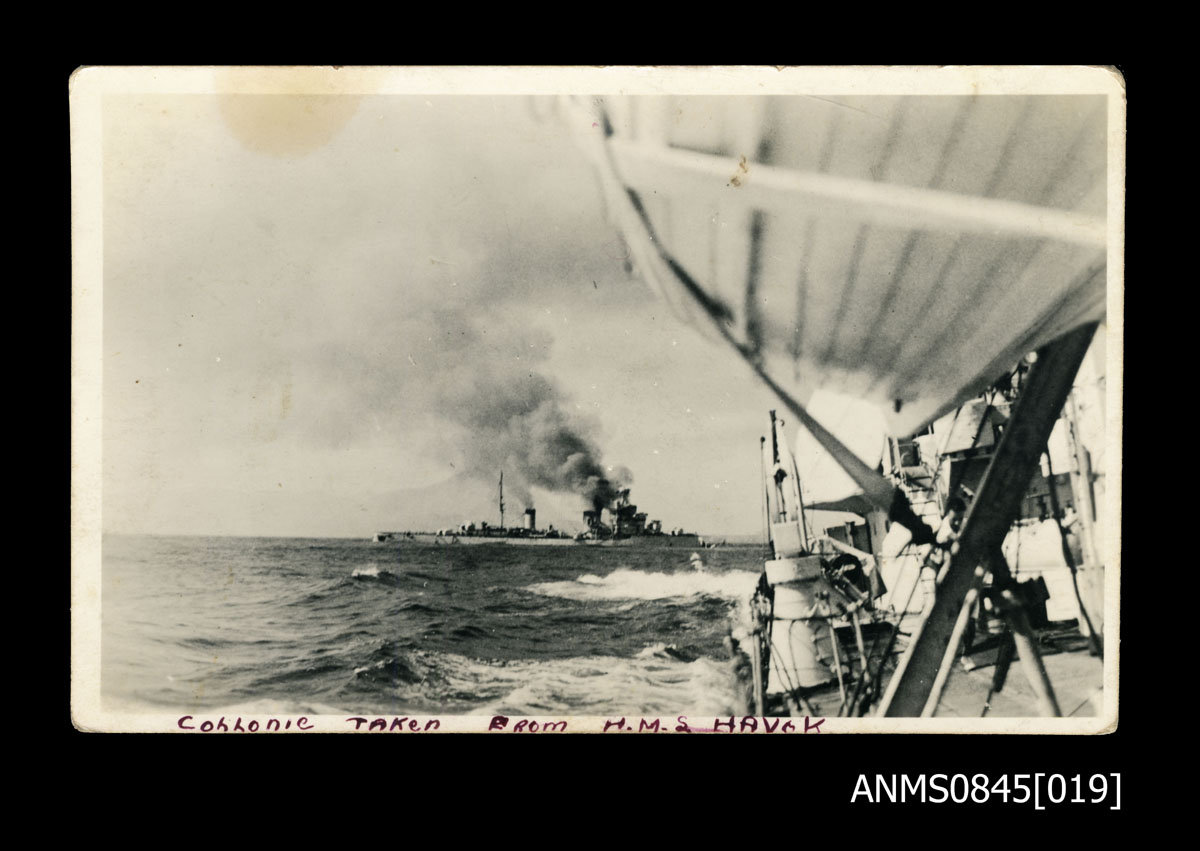 Able Seaman Arthur Thomas Wood was born 21 April 1921 at Berry in New South Wales, and joined the Royal Australian Navy in 1938 at the age of 17. After training at HMAS CEREBUS he joined HMAS SYDNEY in early 1939. When World War II was declared, SYDNEY was ordered to serve in the Mediterranean for escort duty. Wood was aboard SYDNEY when it sank the Italian cruisers ESPERO and BARTOLOMEO COLLEONI in July 1940. These photographs and postcards depict some of the sailors, equipment and activities of HMAS SYDNEY in the months prior to the sinking of the vessel. They provide an interesting commentary of the operations and work carried out aboard HMAS SYDNEY prior to its fateful end, such as the sinking of Italian ships ESPERO and BARTOLOMEO COLLEONI in the Mediterranean. The Australian National Maritime Museum undertakes research and accepts public comments that enhance the information we hold about images in our collection. If you can identify a person, vessel or landmark, write the details in the Comments box below. Thank you for helping caption this important historical image. Object number ANMS0845[019].